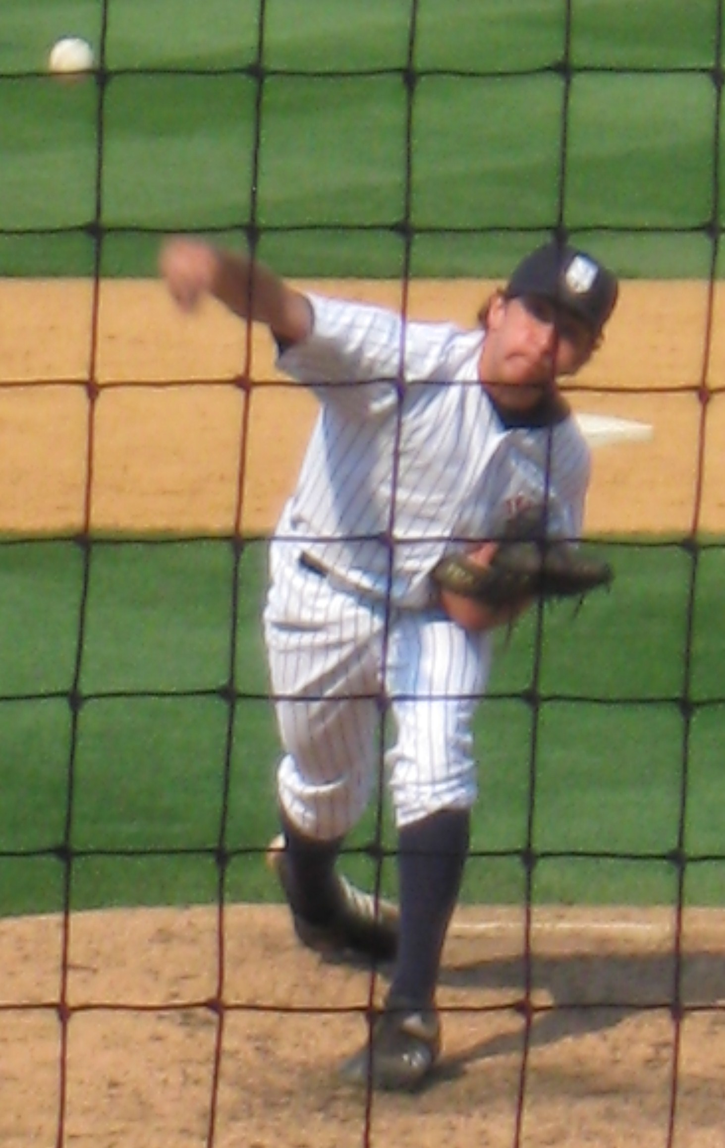 It's an in-action picture of Pat Venditte warming up with his right hand before the 9th inning in the Staten Island Yankees/Aberdeen IronBirds game.